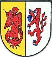 Coat of Arms of the former district of Oberpleis